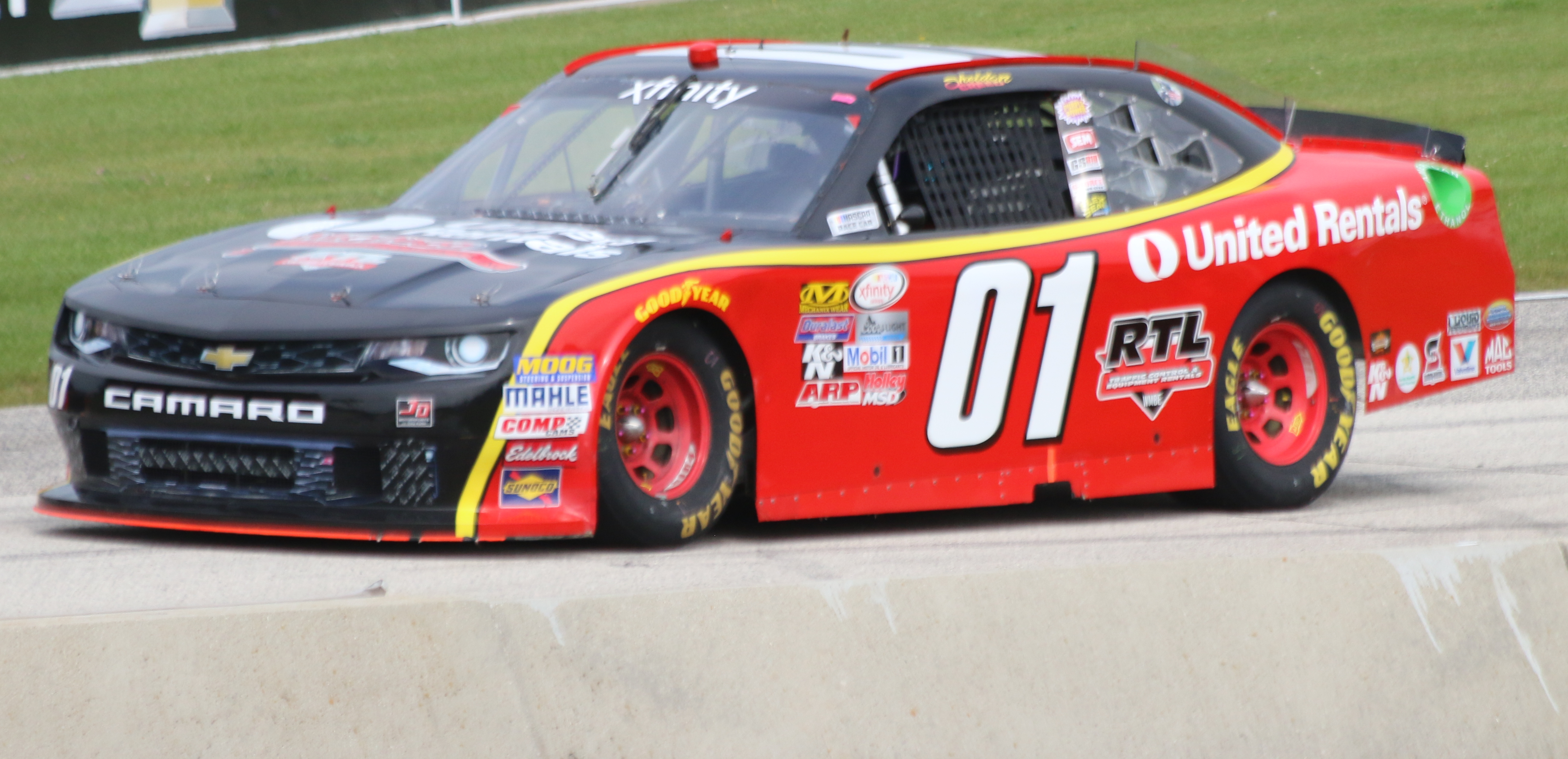 The Chevrolet Camaro of Sheldon Creed at the NASCAR Xfinity Series Johnsonville 180.